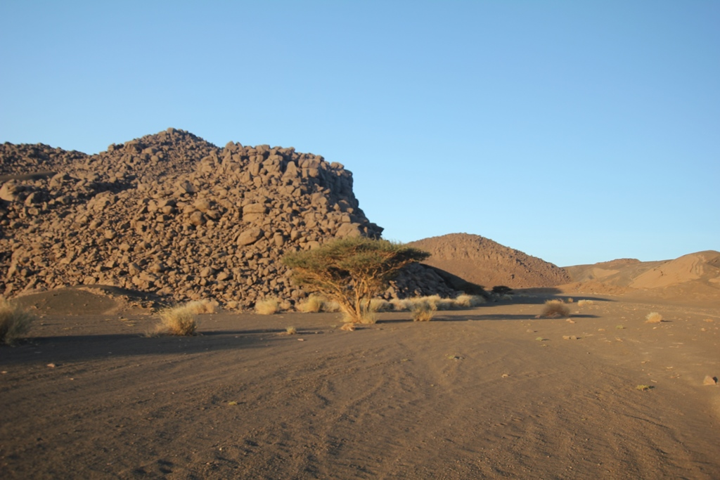 BVFLavaScoriaCones